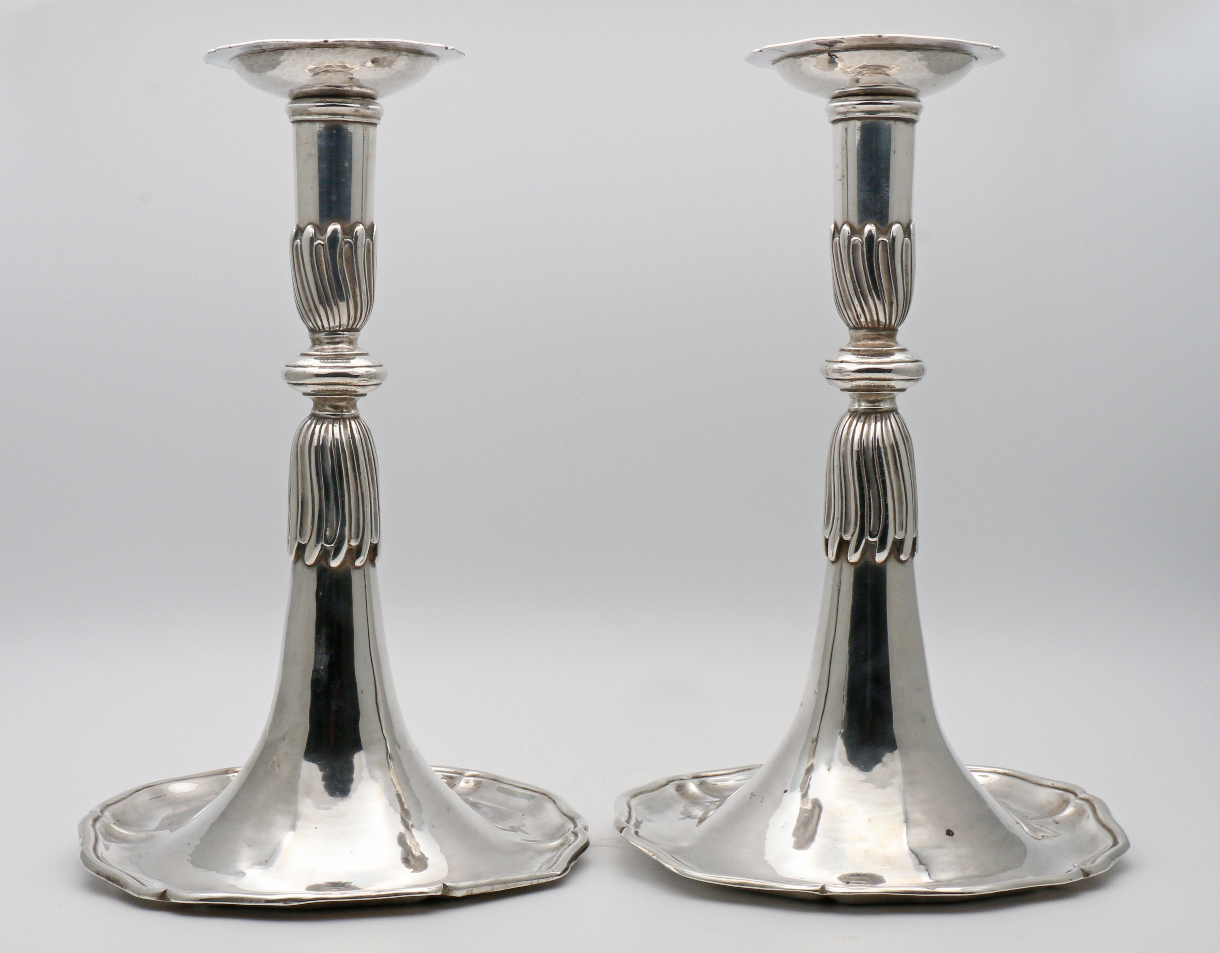 18th Century silver trumpet candlesticks from Lausanne